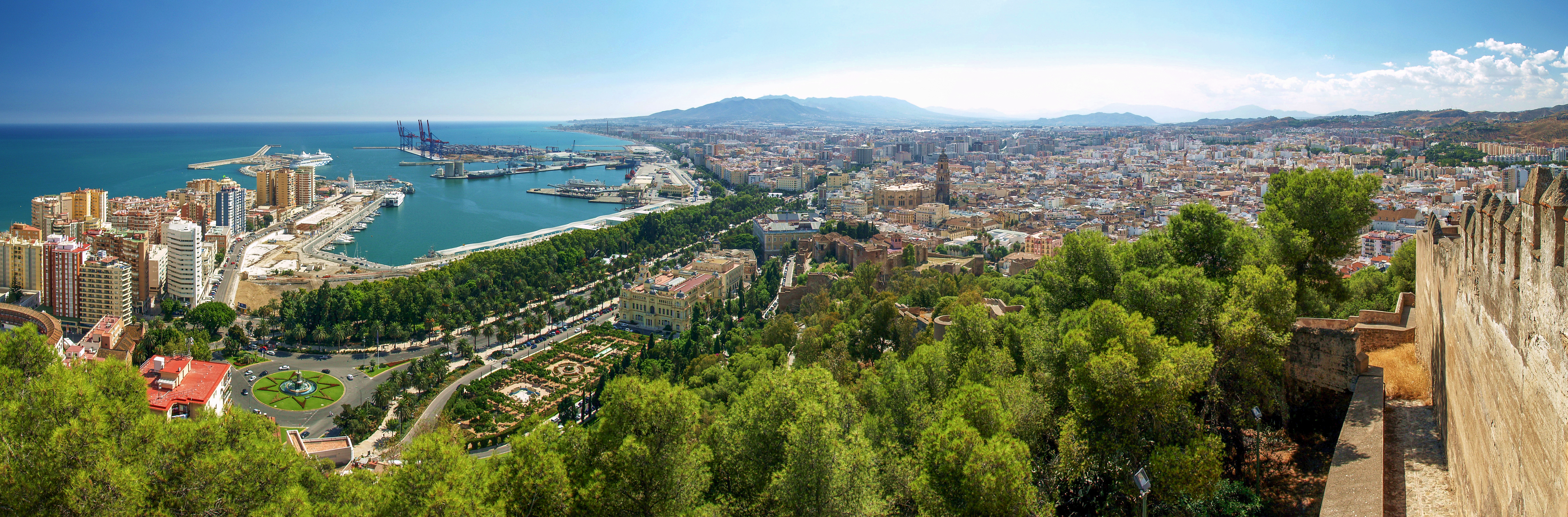 Panoramic view of Malaga, Spain. Picture taken from Gibralfaro